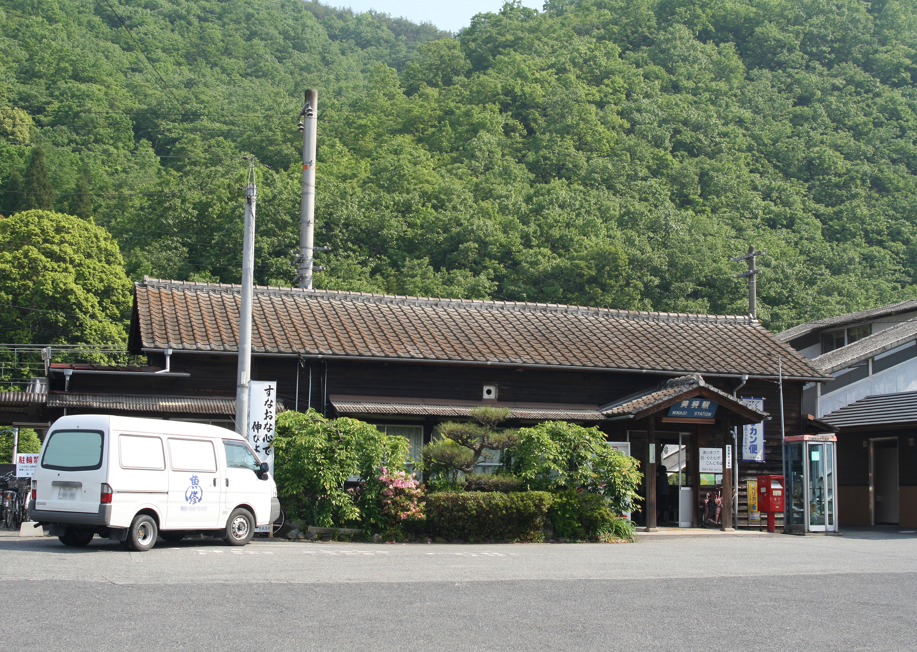 West Japan Railway Hakubi Line minagi station